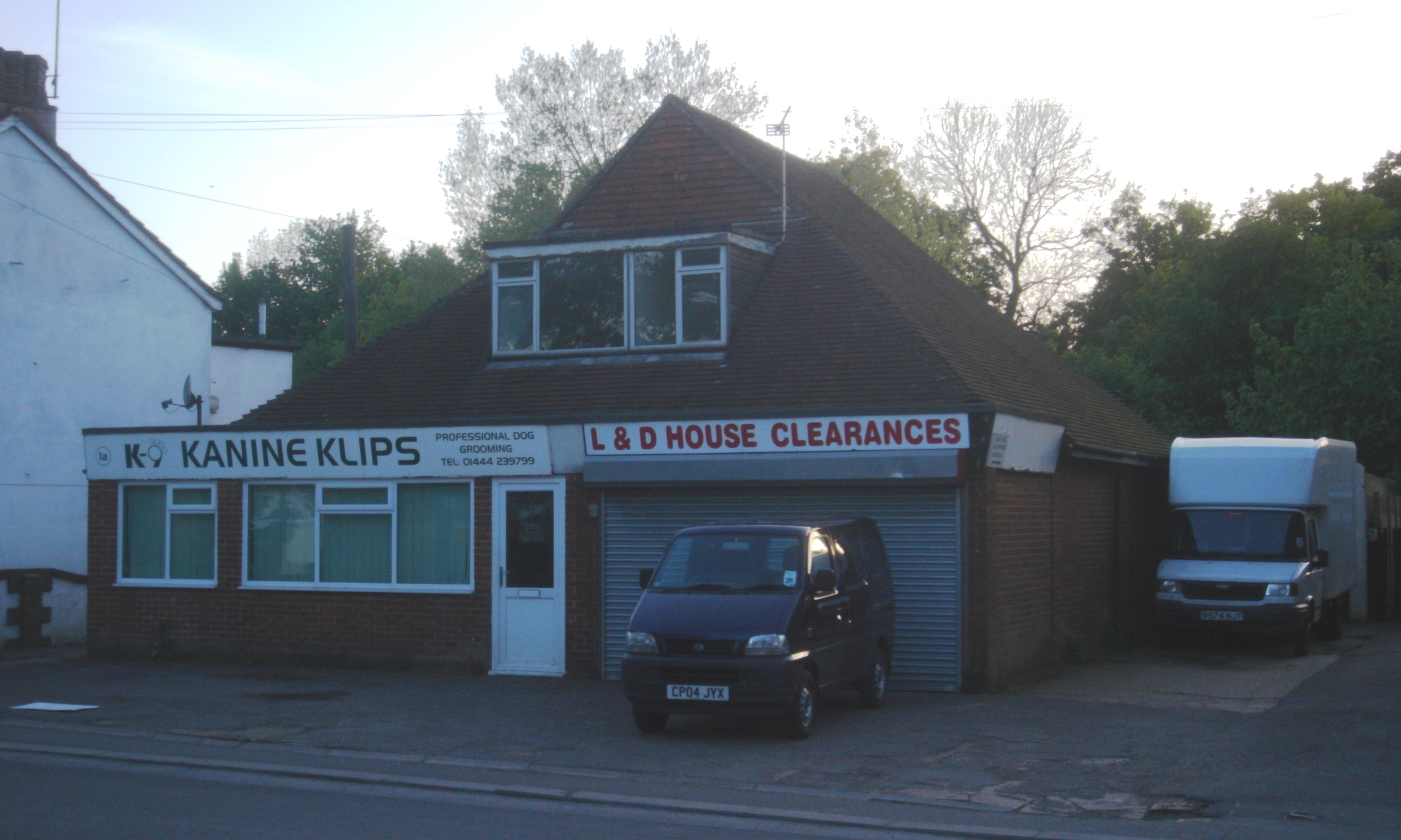 The former World's End Mission Hall, Valebridge Road, Burgess Hill, District of Mid Sussex, West Sussex, England. Built in 1887 to serve the northeastern part of Burgess Hill, this was only used for 11 years until a larger tin church replaced it. This was in turn replaced by the present St Andrew's Church. The mission hall is now divided into two shop units.